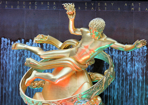 Prometheus Statue at Rockefeller Centre, NY; the inscription behind it is a paraphrase of Aeschylus which reads: "Prometheus, teacher in every art, brought the fire that hath proved to mortals a means to mighty ends."